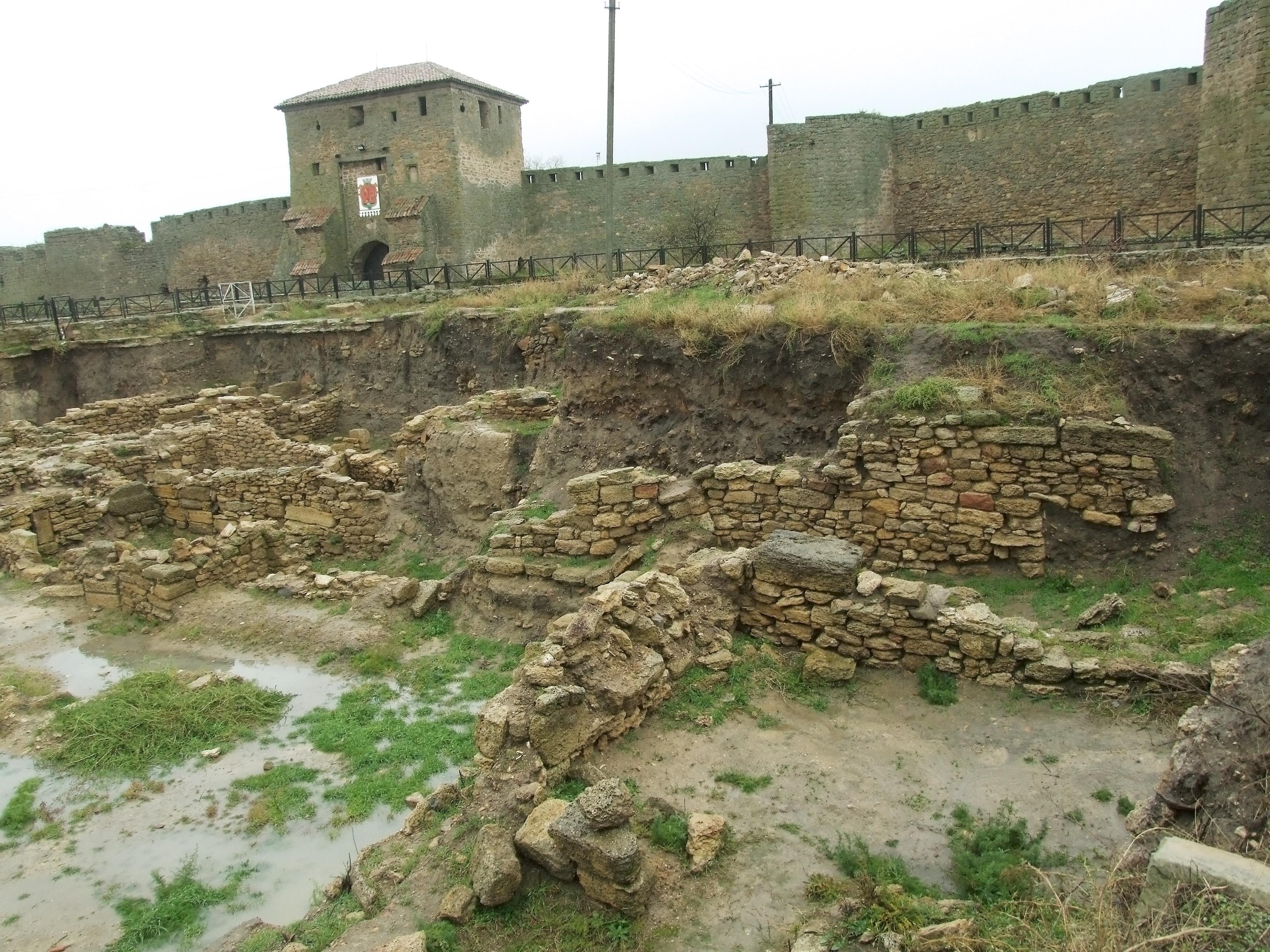 Ruins of Tyras in city of Bilhorod-Dnistrovskyi, Bilhorod-Dnistrovskyi Raion, Odessa Oblast, Ukraine